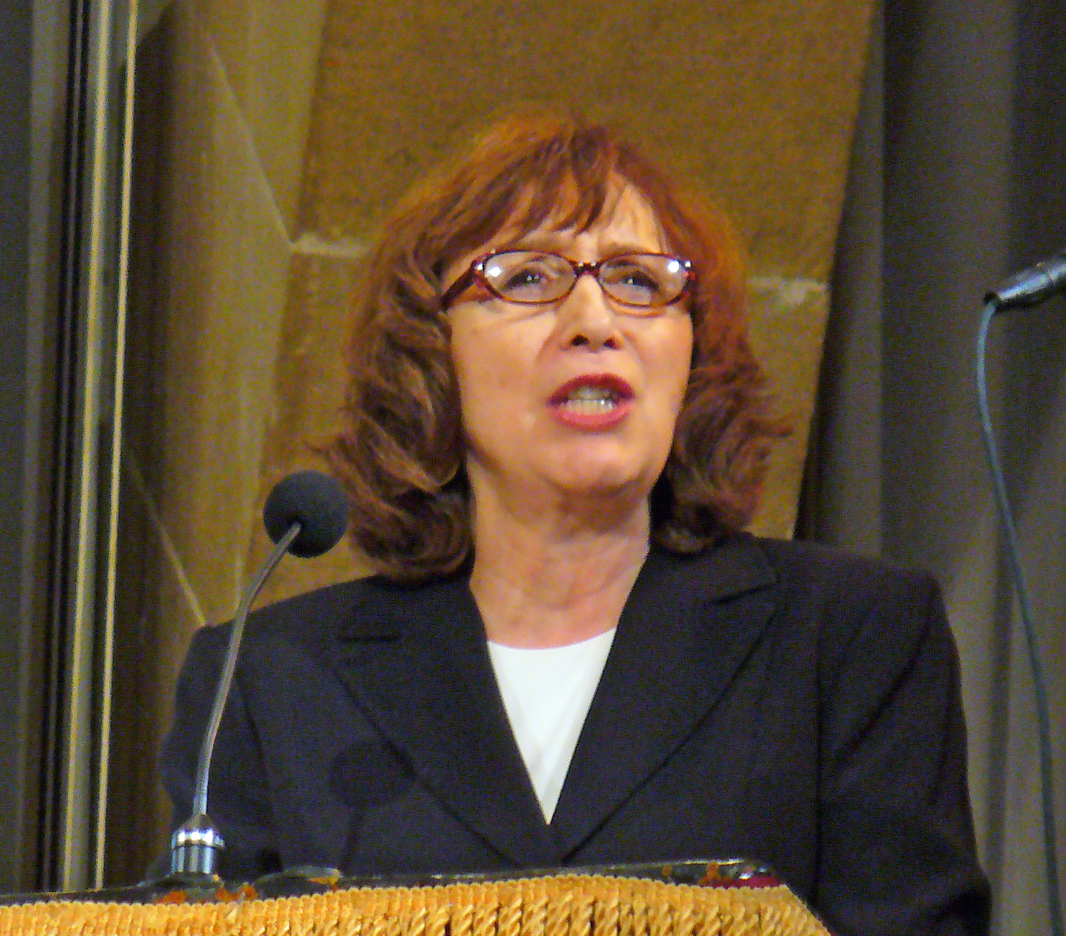 Maria Tucci by David Shankbone